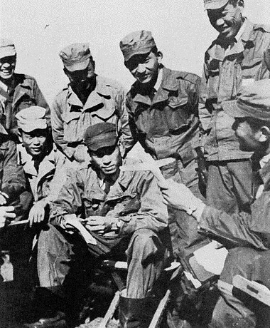 NSF (National Safety Force of Japan) aviation cadets